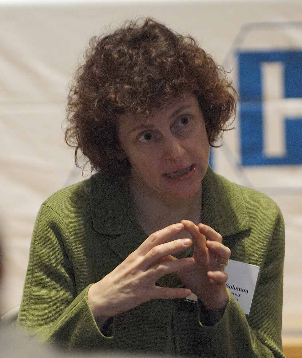 Photograph of professor of philosophy Miriam Solomon, taken at the 2006 Gordon Cain Conference, 8 April 2006, at the Chemical Heritage Foundation, Philadelphia, PA, USA.